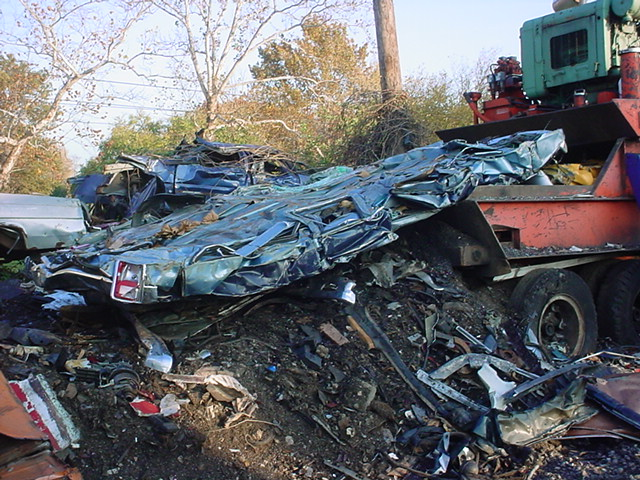 This is a car fresh out of the crusher. This was a light blue 1990s Lincoln Town Car. The tail end of the yellow Ford van shown in the previous photo is visible just to the right of the blue car. Photo taken November 6, 2005 in St. Louis, MO